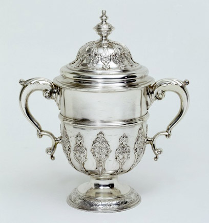 Cup and Cover, Marked by Paul de Lamerie, England (London), 1736-7 V&A Museum no. 819-1890.